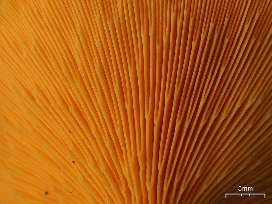 Hygrophoropsis aurantiaca 20090920.33 Canada, BC, Wells Gray Park Close-up of the striking forked orange gills.